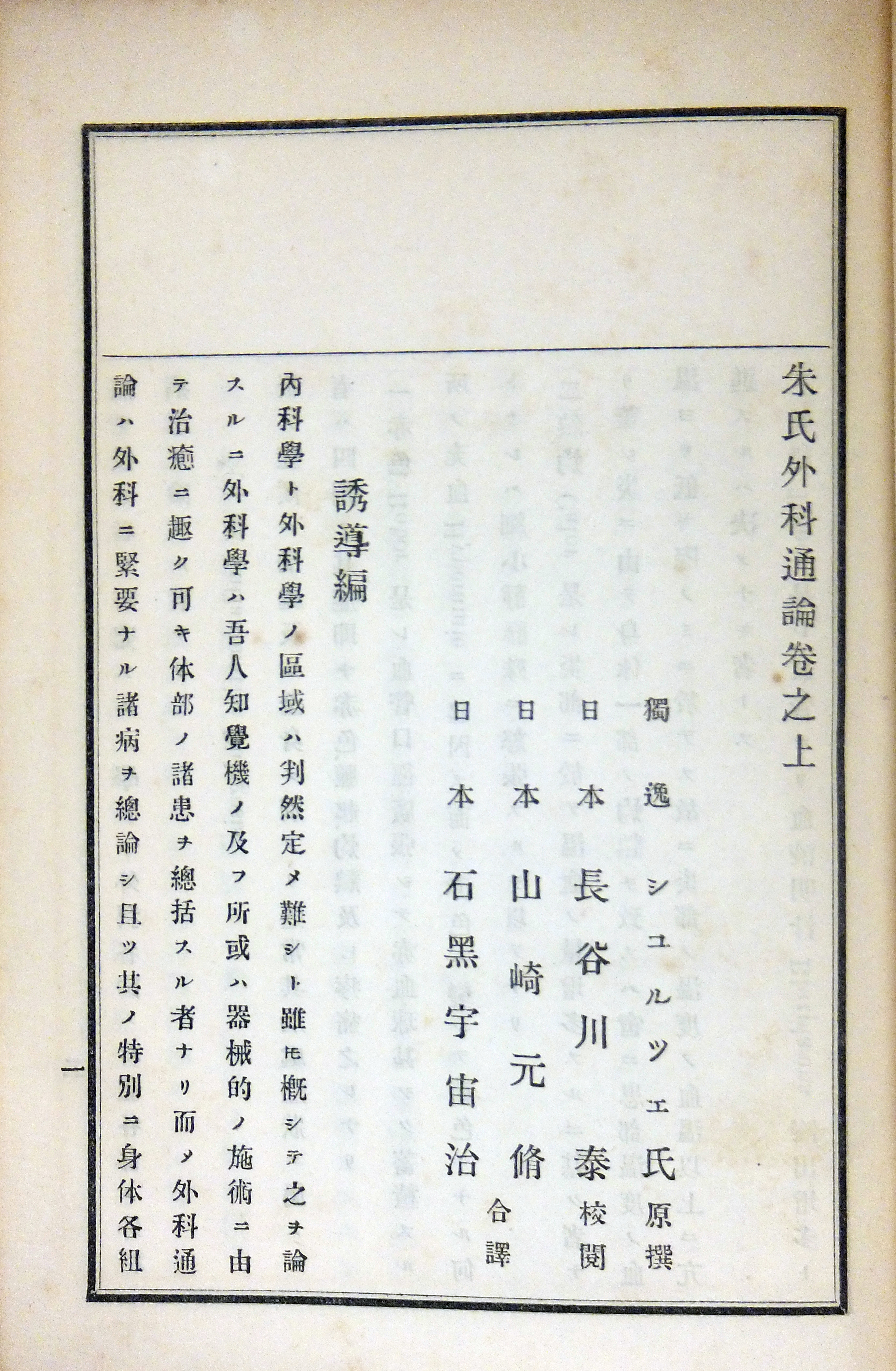 First page of Emil August Wilhelm Schultze's lecture on general surgery, translated by Yamazaki Genshū and published in Tokyo in 1884